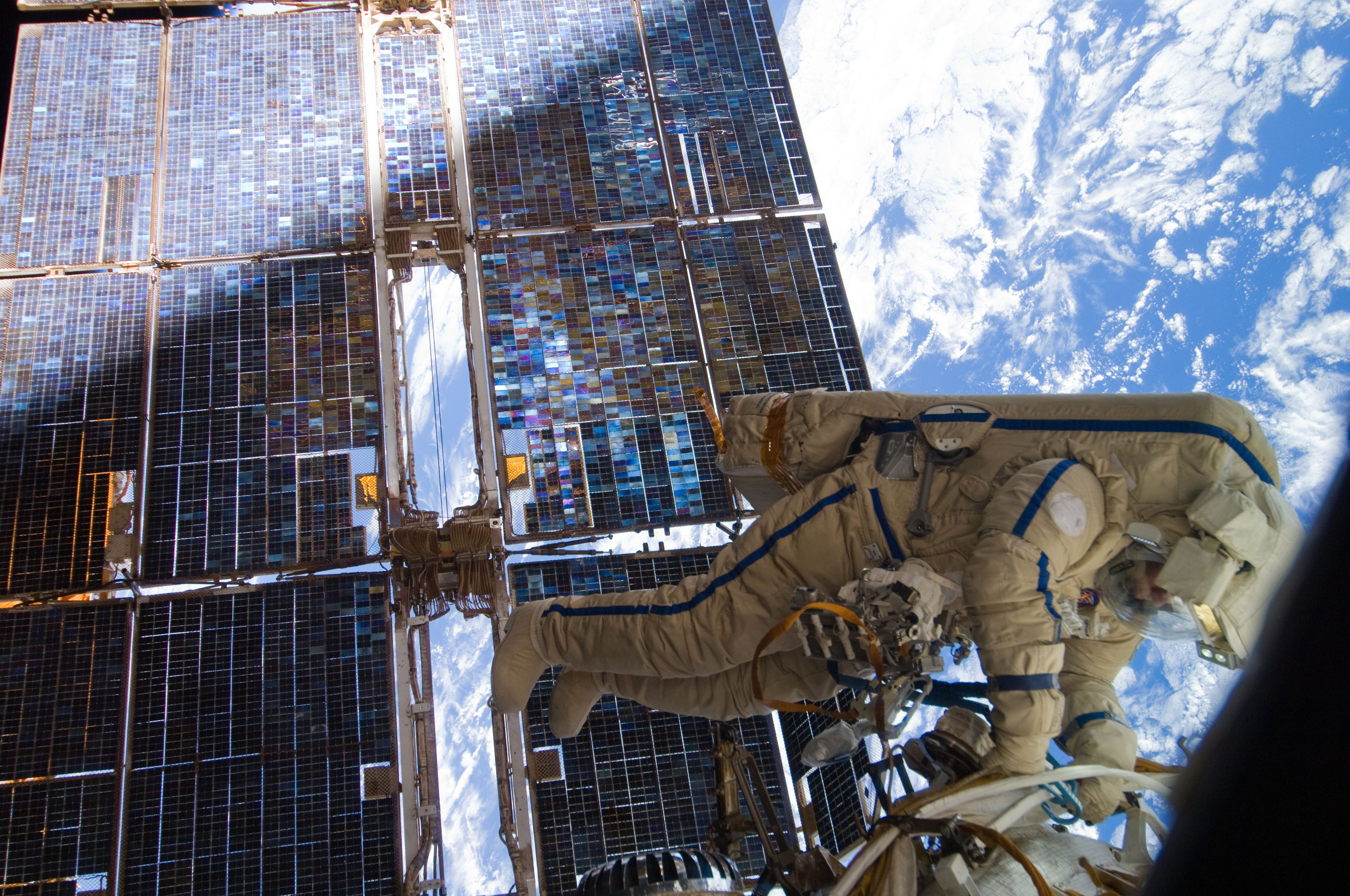 Russian cosmonauts Sergei Volkov and Alexander Samokutyaev (out of frame), both Expedition 28 flight engineers, attired in Russian Orlan spacesuits, participate in a session of extravehicular activity (EVA) on the Russian segment of the International Space Station. During the six-hour, 23-minute spacewalk, Volkov and Samokutyaev moved a cargo boom from one airlock to another, installed a prototype laser communications system and deployed an amateur radio micro-satellite.